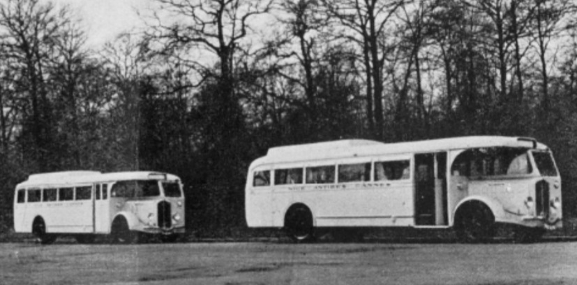 Renaults ZP short and long, pictured in 1935